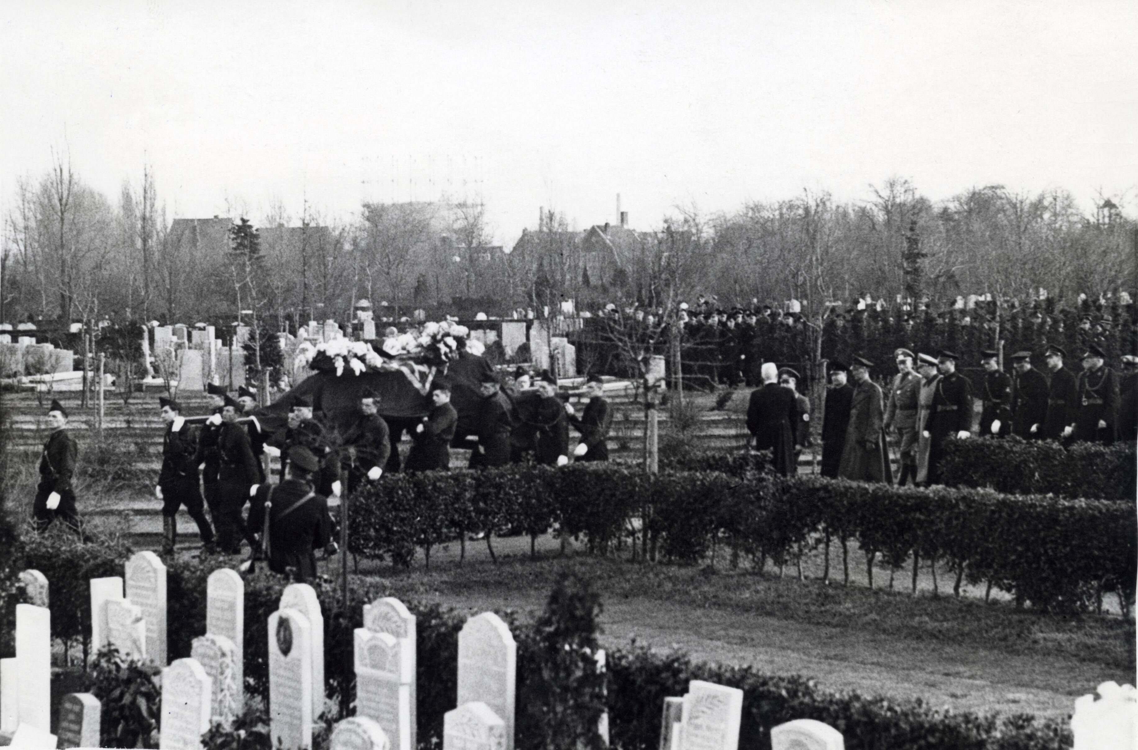 Burial of W.A.-man Hendrik Koot, Amsterdam (the Netherlands), 17 Febr. 1941